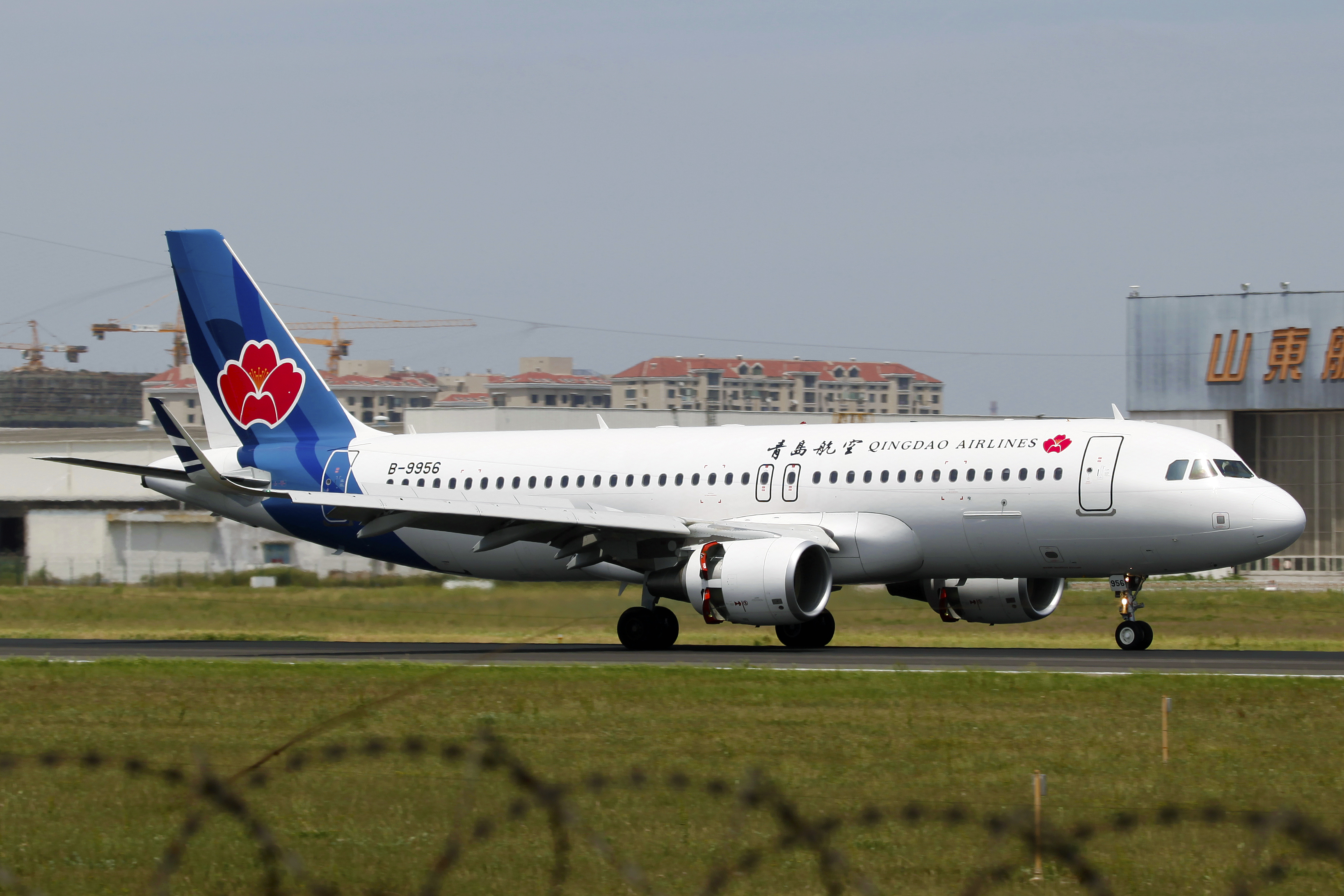 B-9956 | Qingdao Airlines | Airbus A320-214(WL) | Qingdao Liuting International Airport [TAO]